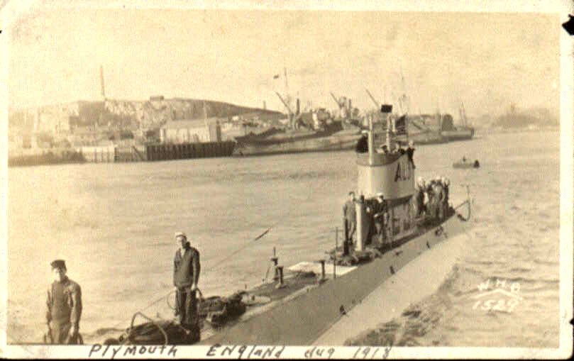 Photograph of British submarine L3 and some crewmembers, at Plymouth.